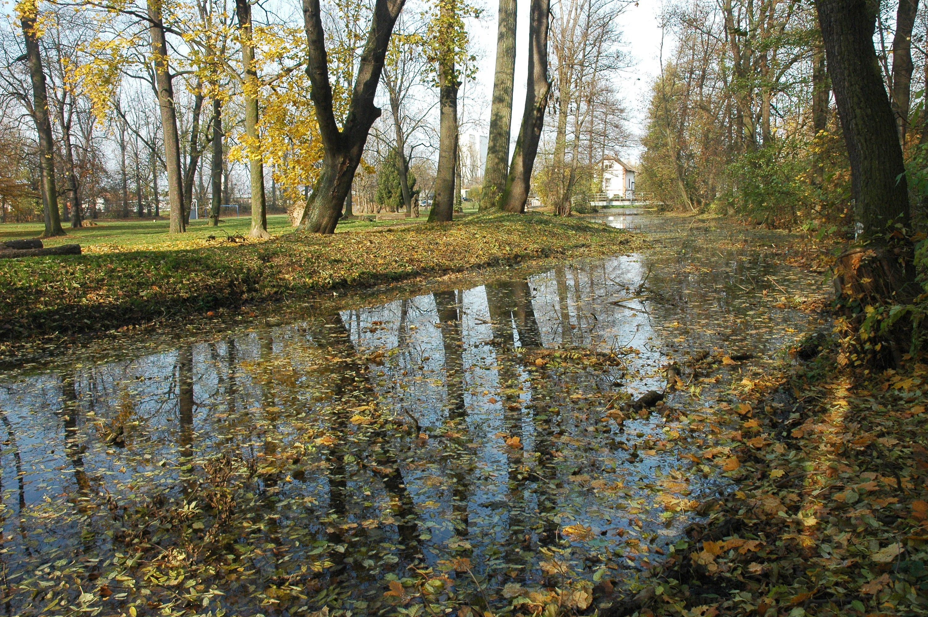 Natural monument Ptačí ostrovy in Chrudim, Chrudim District, Czech Republic